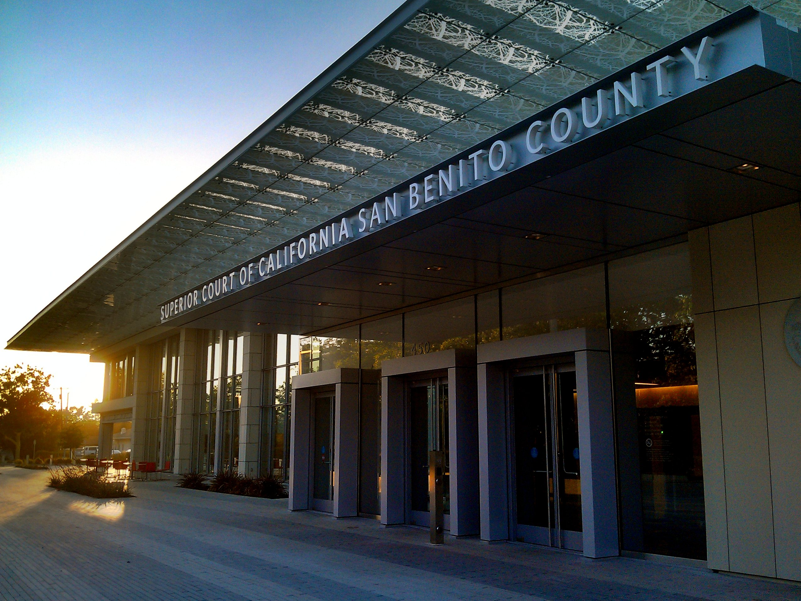 The main entrance of the San Benito County Courthouse, completed in 2014, Hollister, California.